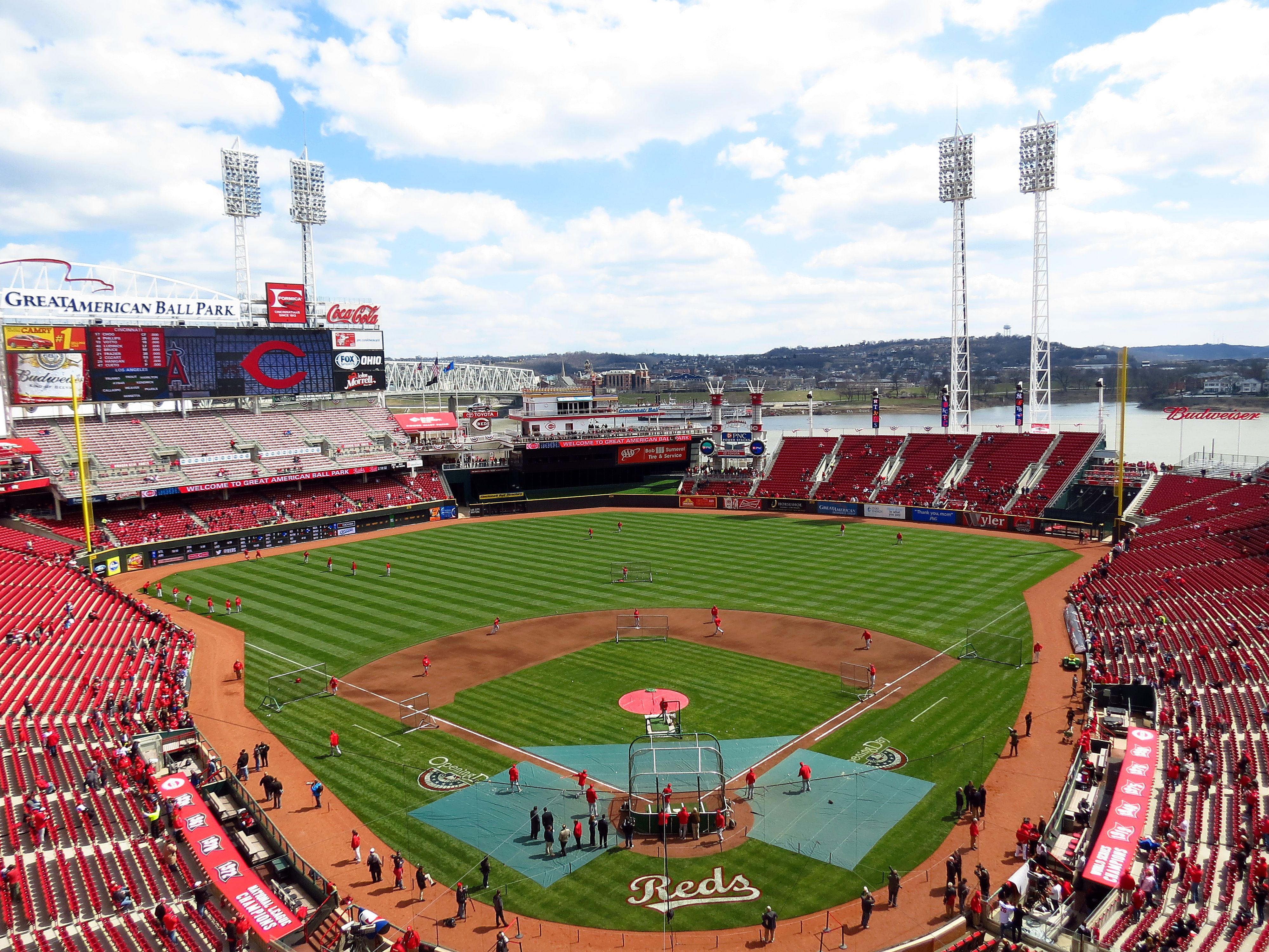 2013 Opening Day Los Angeles Angels of Anaheim at Cincinnati Reds